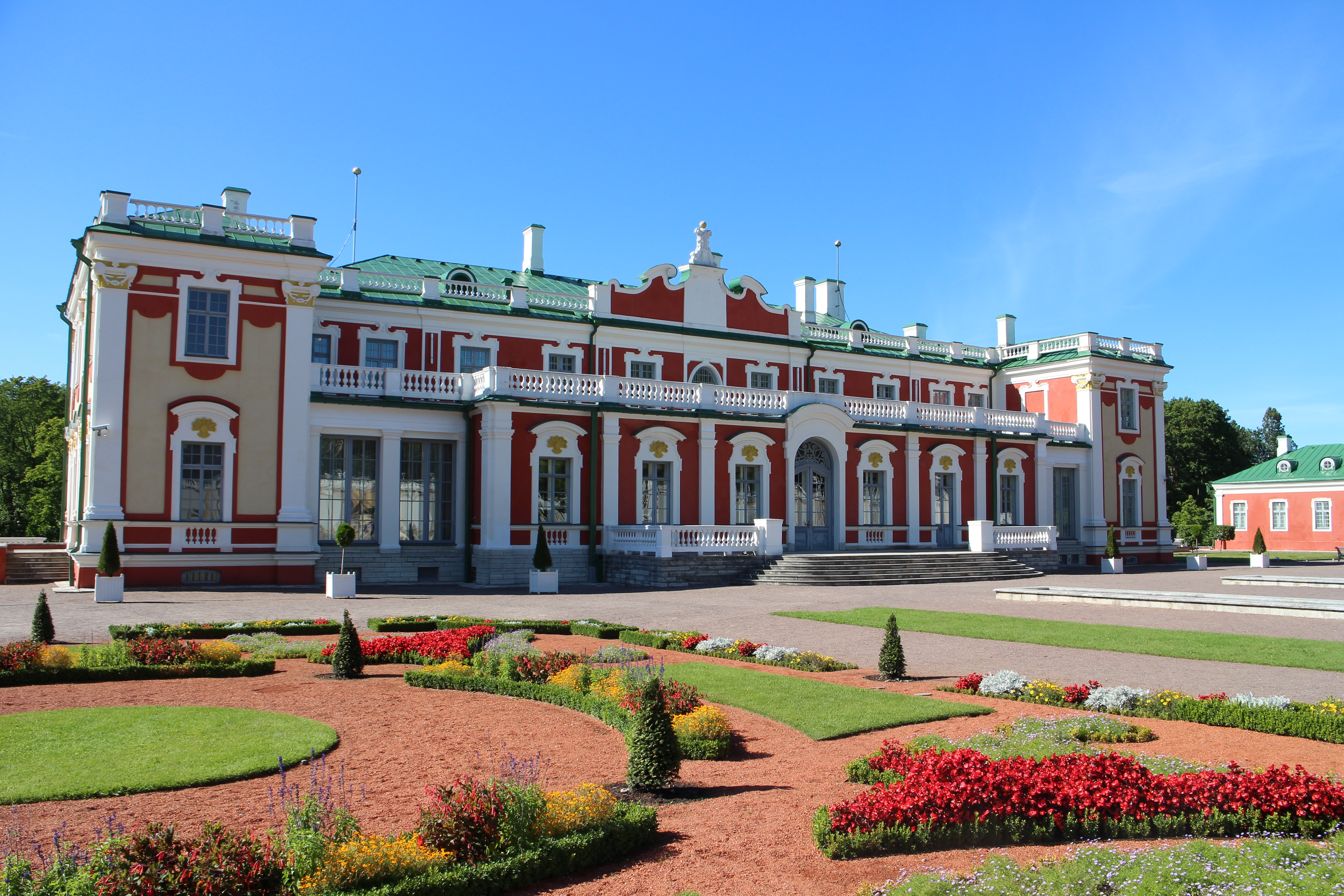 Kadriorg Palace